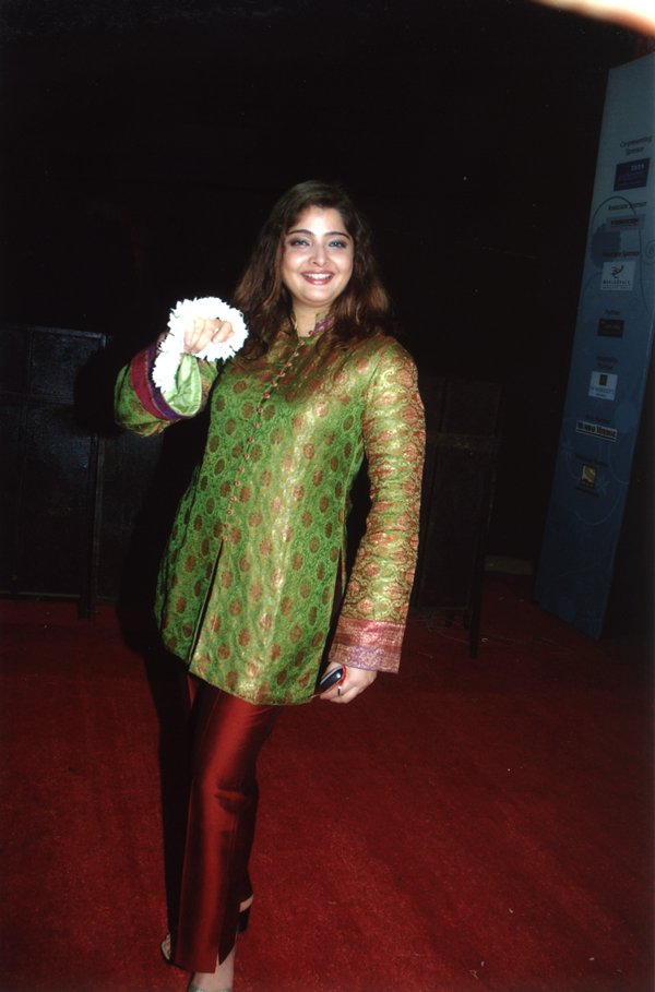 Das at the MTV Immies Awards